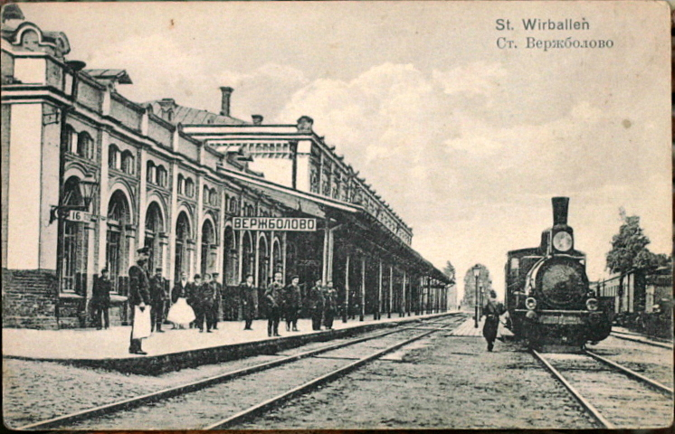 Verzhbolovo railwaystation in Kybartai in about 1900 (dated by the type of locomotive shown)